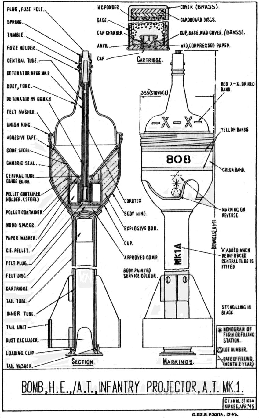 Diagram showing Projectile for British PIAT (Projector Infantry Anti-Tank).